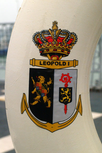 Coat of arms of the Belgian Karel Doorman-class vessel "F930 Leopold I"